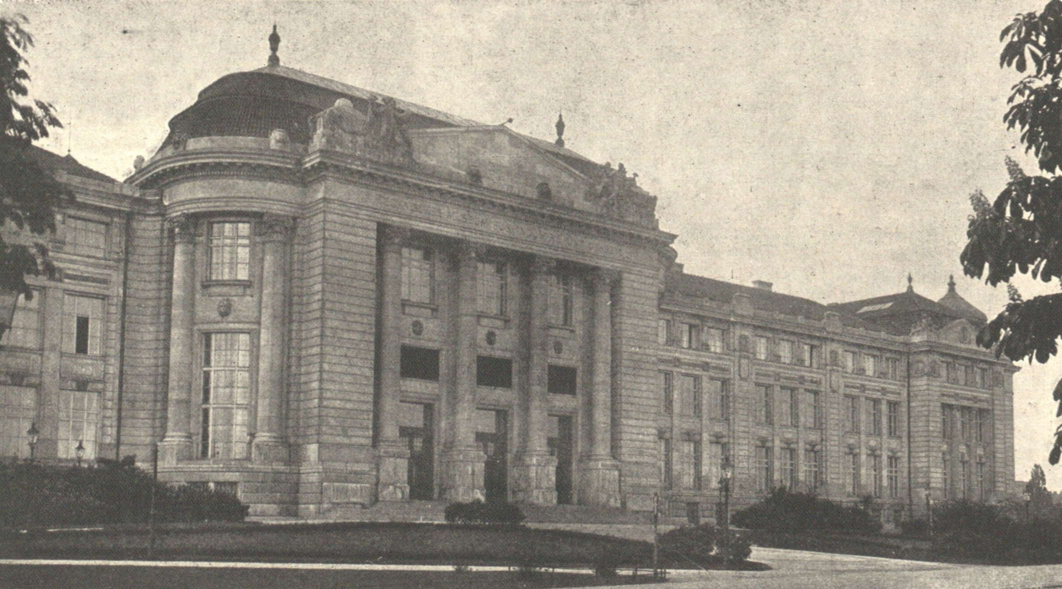 Technisches Museum Wien